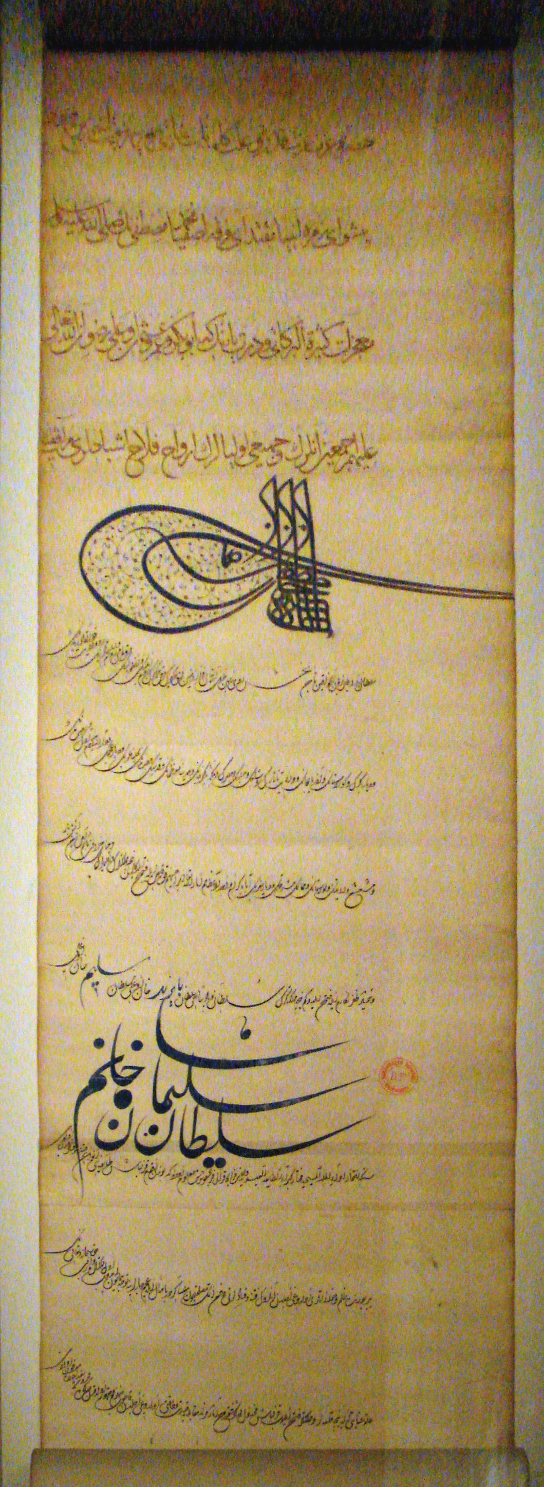 Letter_of_Suleiman_to_Francis_I_6_April_1536